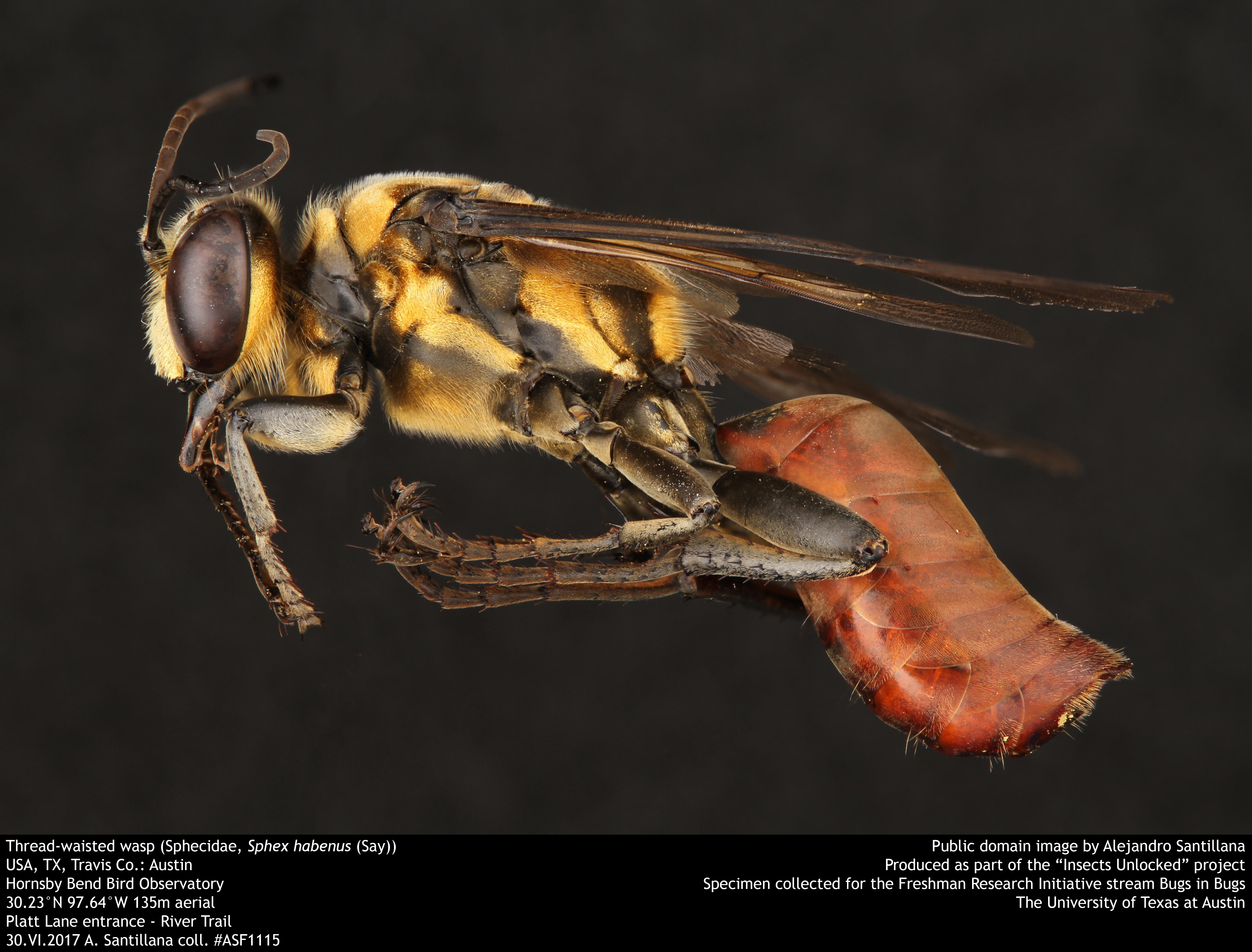 Thread-waisted wasp (Sphecidae, Sphex habenus (Say)) USA, TX, Travis Co.: Austin Hornsby Bend Bird Observatory 30.23°N 97.64°W 135m aerial Platt Lane entrance - River Trail 30.VI.2017 A. Santillana coll. #ASF1115